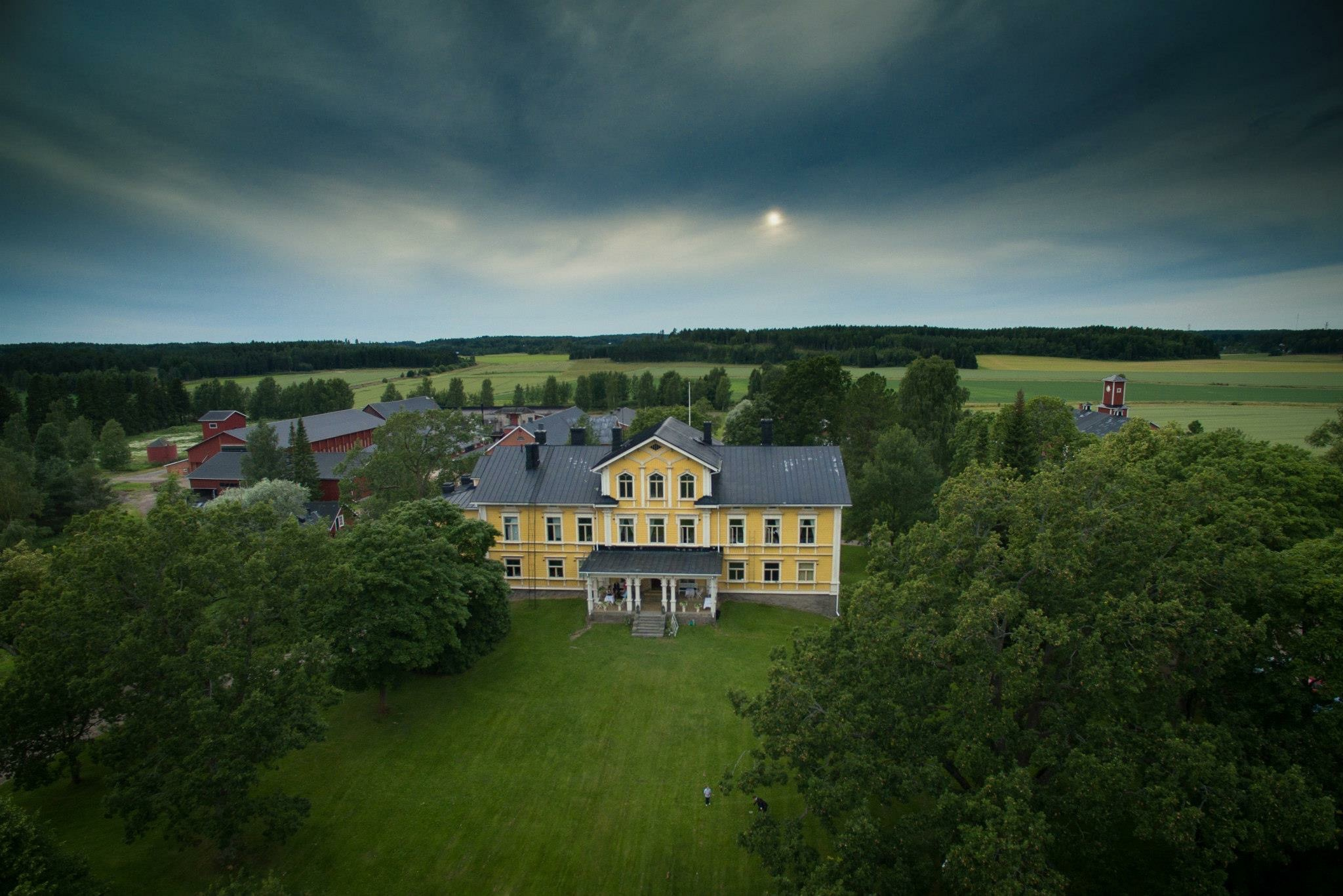 Kiala manor from the air 25th of July 2015